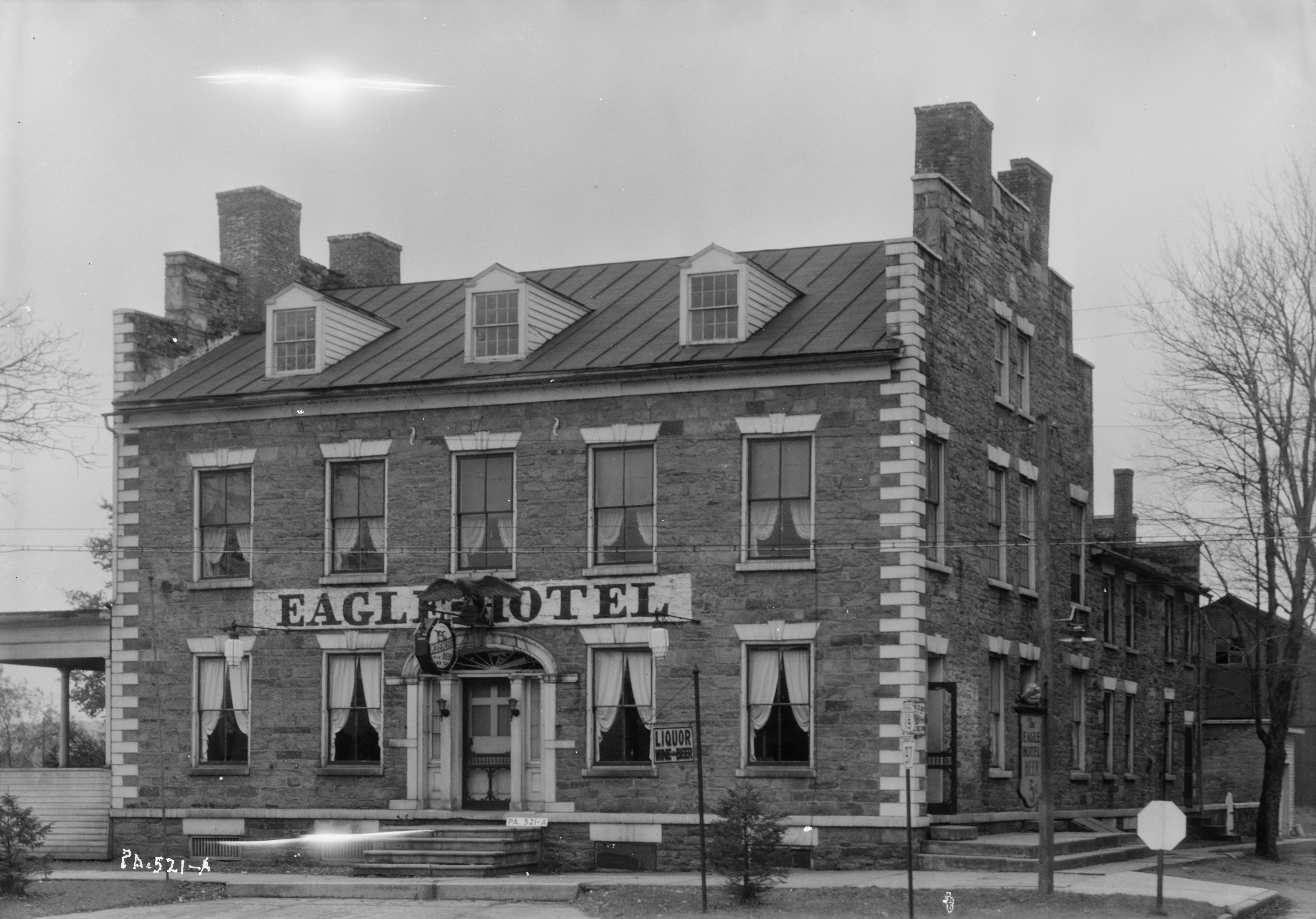 The Eagle Hotel in Waterford, Pennsylvania. Original number was "HABS PA,25-WAFO,2-1", original caption was "East elevation, front." Object location 41° 56′ 25.0″ N, 79° 58′ 59.0″ W This and other images at their locations on: Google Maps - Google Earth - OpenStreetMap - Proximityrama(Info)